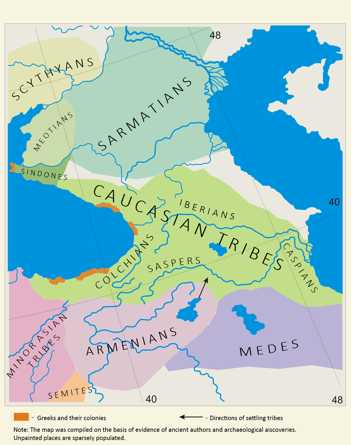 The Ethnic Map of Caucasus - centuries V - IV B.C.E., by "The World History", Vol.2, 1956 г., Russia